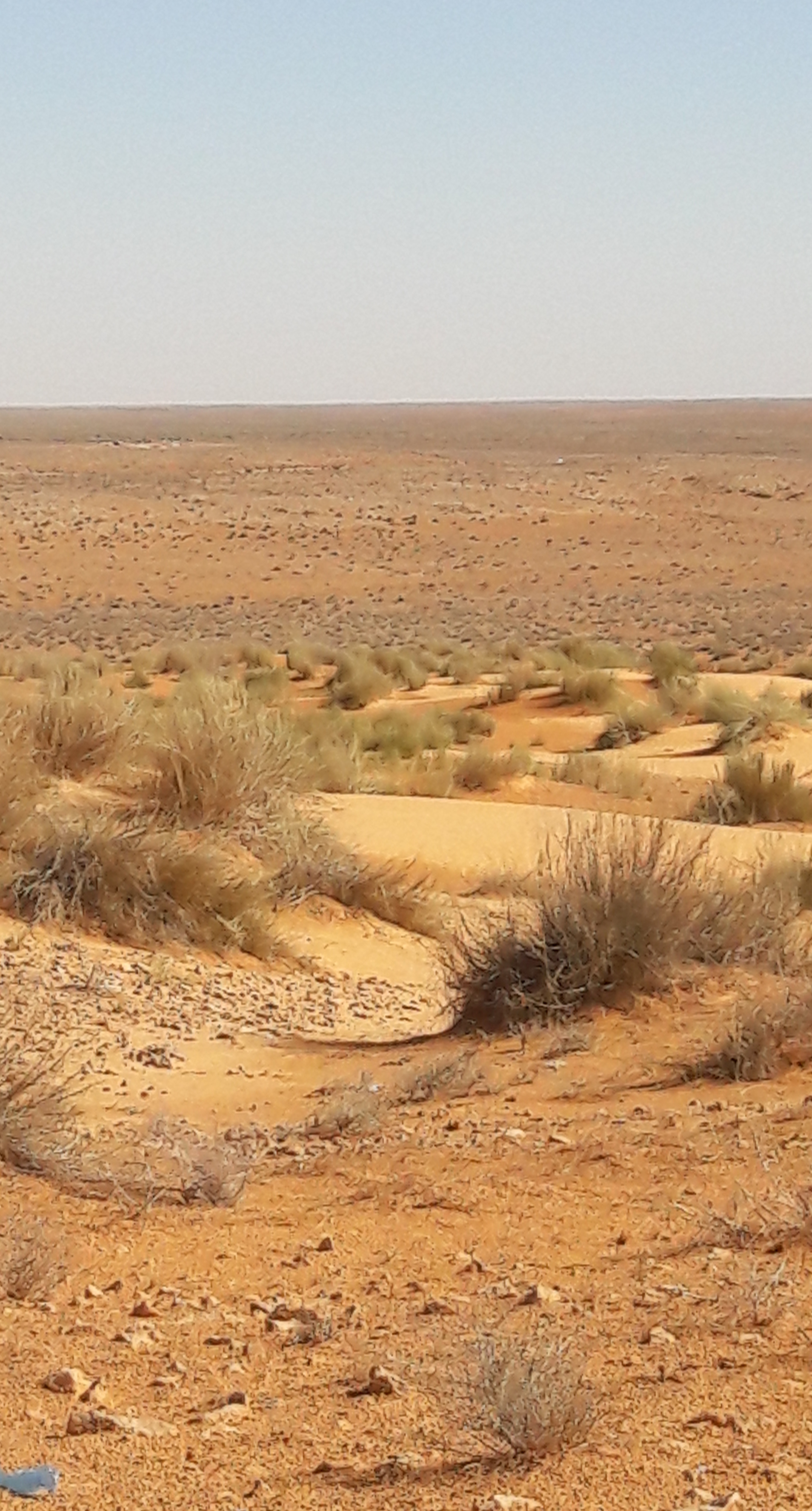 The mismerising nature between the the two neighbour countries, the desert, no borders between neighbours woh share the same languages and tge culture, the same religion